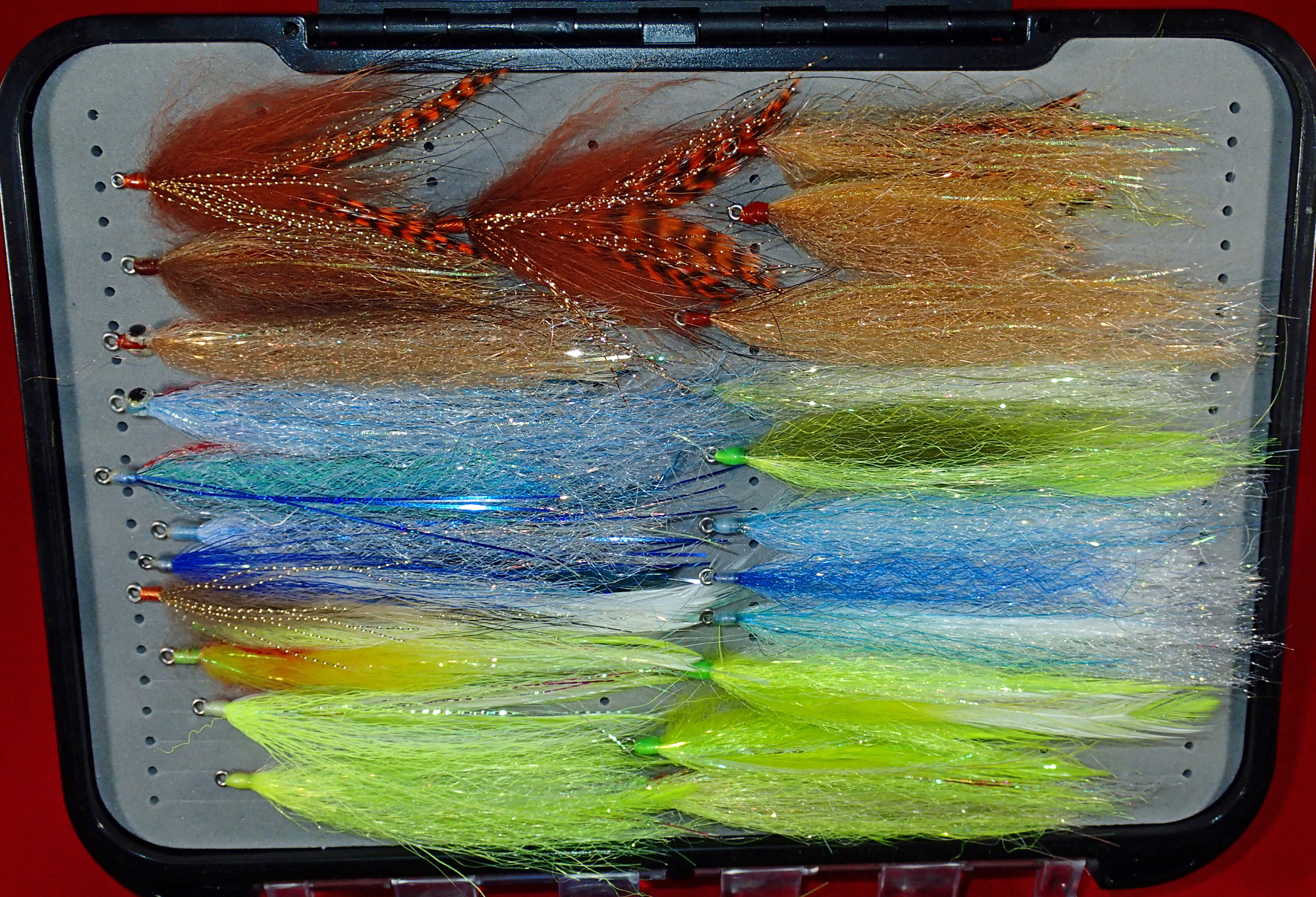 Fly box with Saltwater versions of Lefty's Deceivers streamer flies